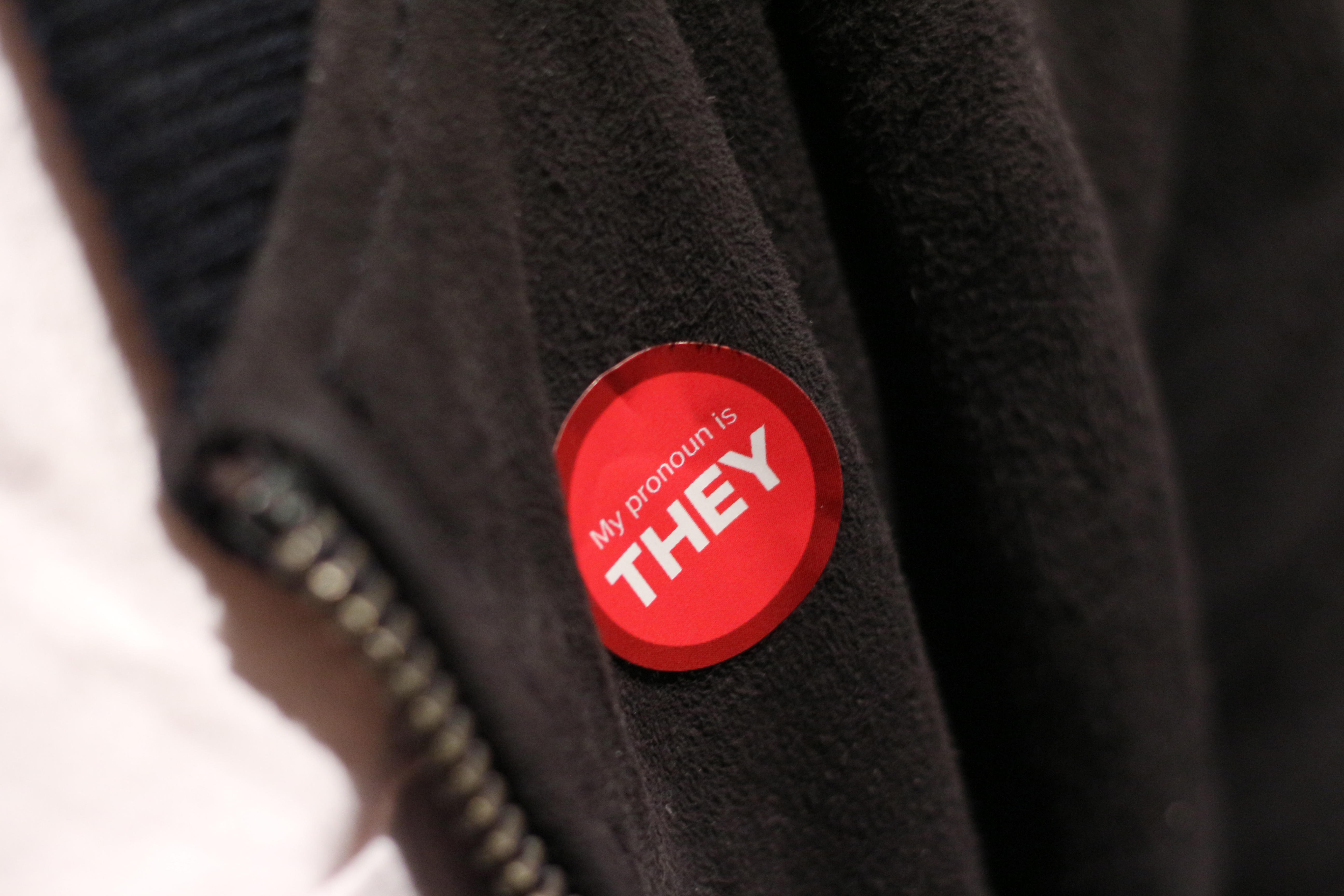 GDS partnered with Code for America to run the first International Design in Government Day in the US as part of the Code for America Summit 2019 in Oakland, California. It included keynotes, workshops, talks and networking opportunities for designers working for and in governments around the world.